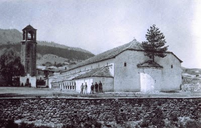 Dormition Church Samarina